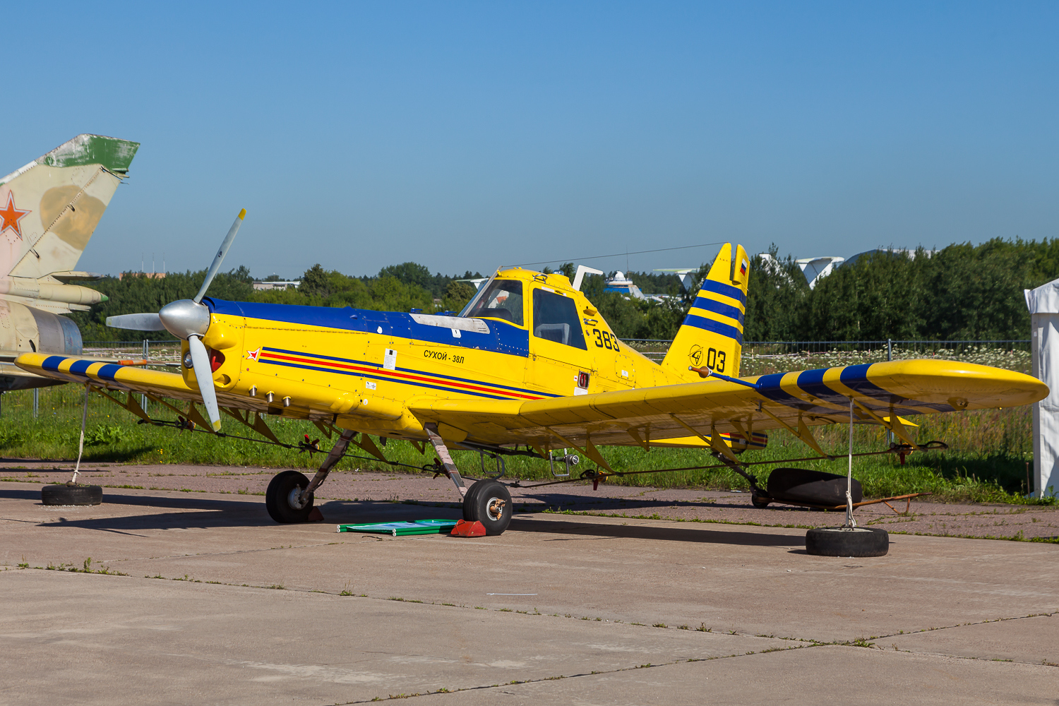 Sukhoi Su-38L on display at MAKS 2017